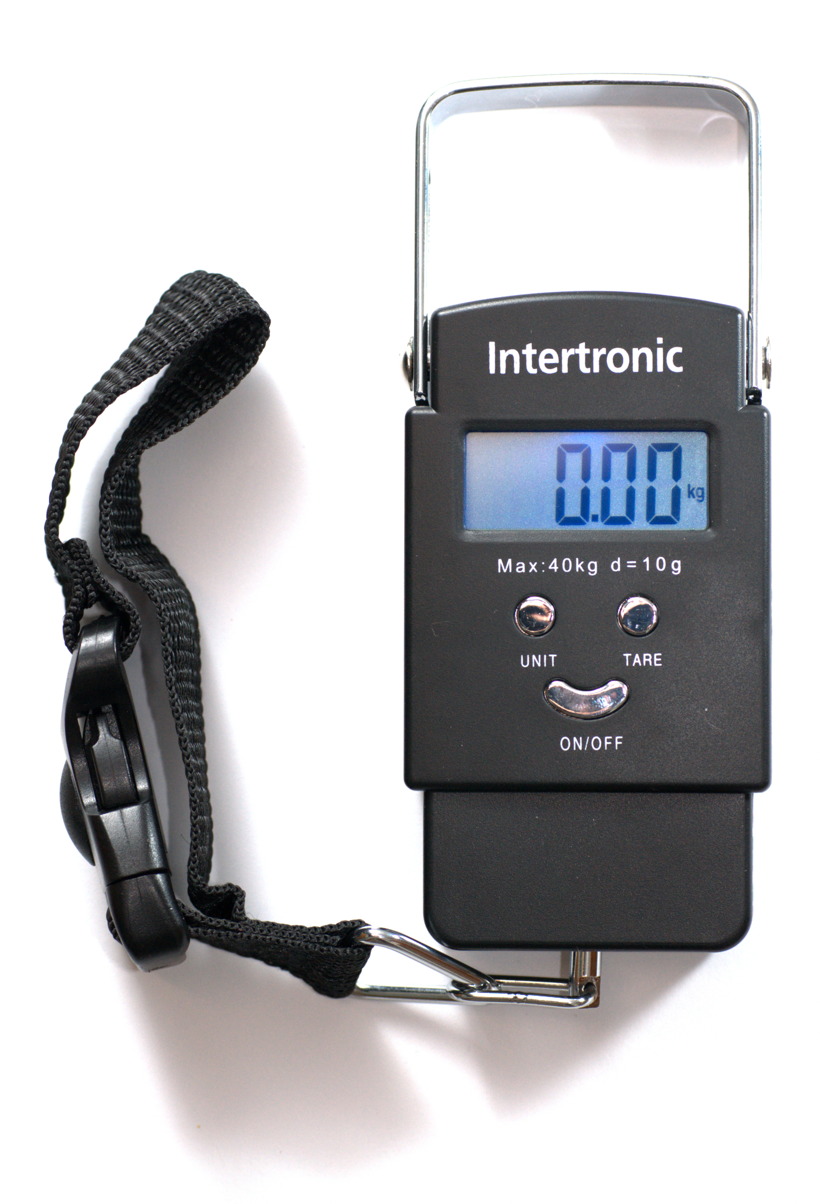 Baggage weighting scale